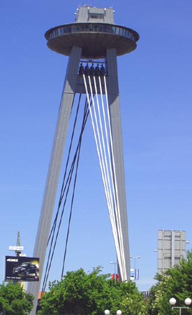 Pylon of the Nový Most (New Bridge) over the Danube in Bratislava, SlovakiaSlovenčina: Nový most (Bratislava)